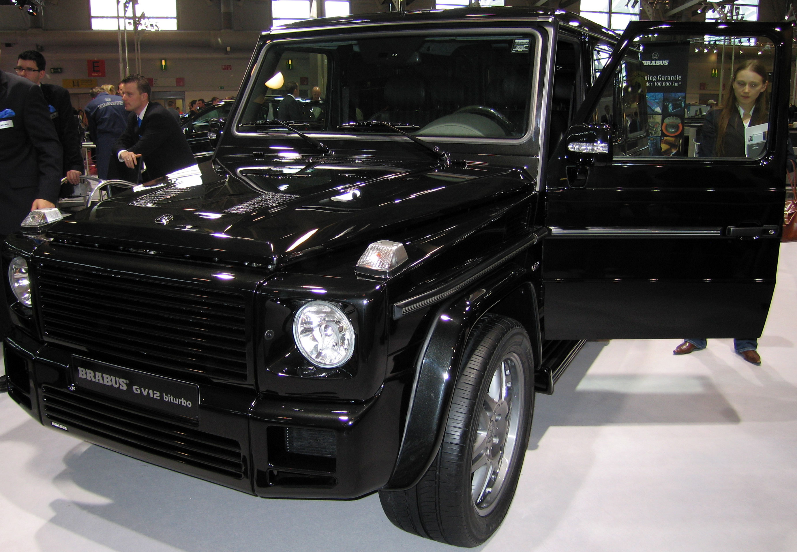 Brabus G V12 Biturbo at the IAA 2003